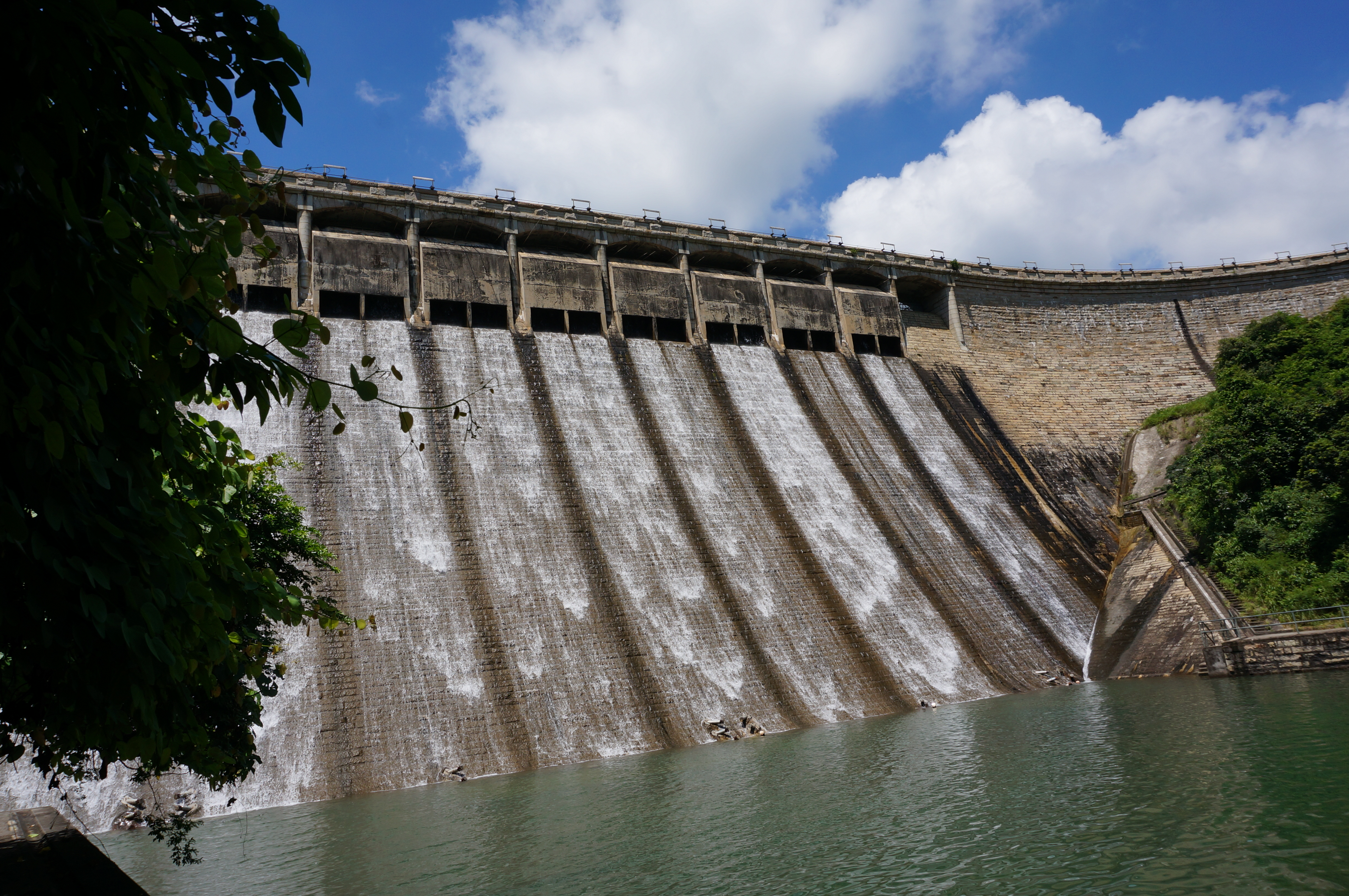 Beautiful water fall with blue sky